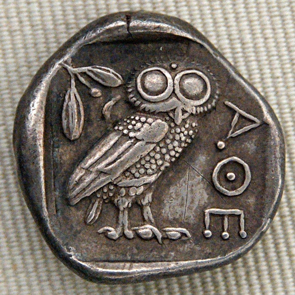 Silver tetradrachm issued by Athens, ca. 450s BC, reverse: owl, olive spray and crescent moon, with the inscription ΑΘΕ.